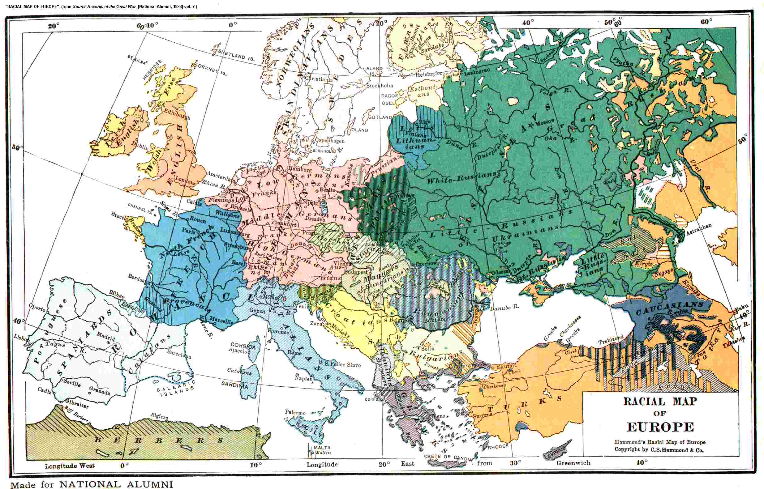 "Racial Map of Europe" (from source records of the Great War. [National Alumni, 1923] vol.7.